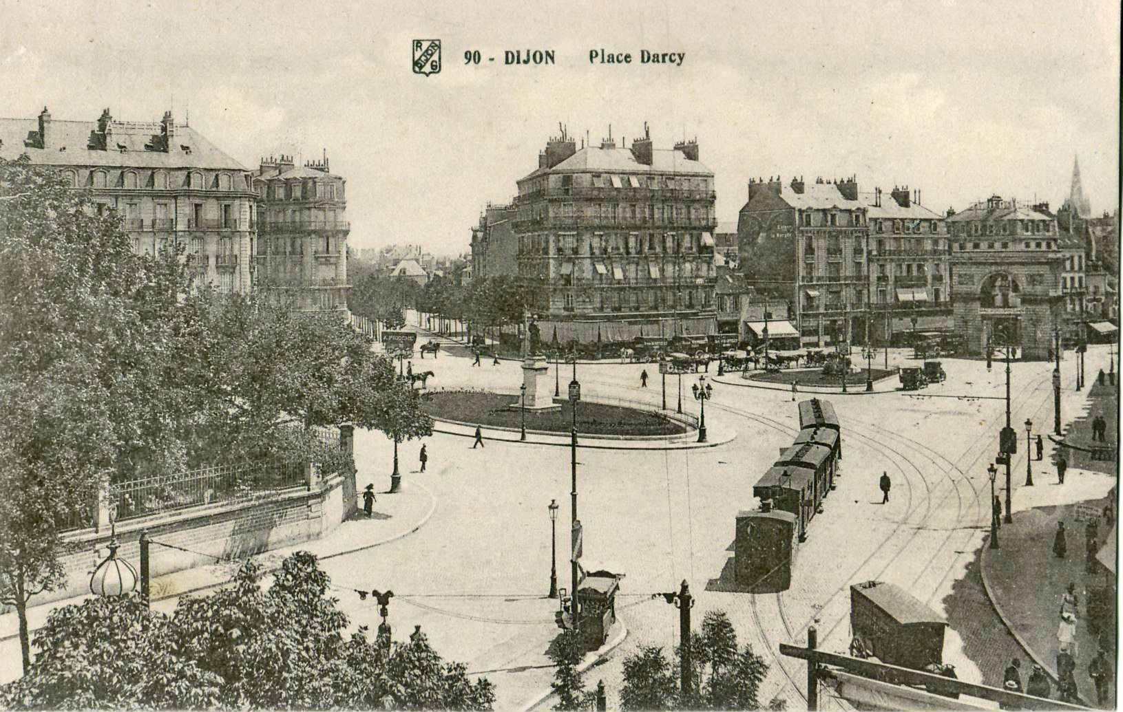 Carte postale ancienne éditée par R G à Dijon, n°90 DIJON - Place Darcy. Une rame à vapeur des Chemins de fer départementaux de la Côte-d'Or circule à côté de la double voie de la Compagnie des Tramways Electriques de Dijon (TED)